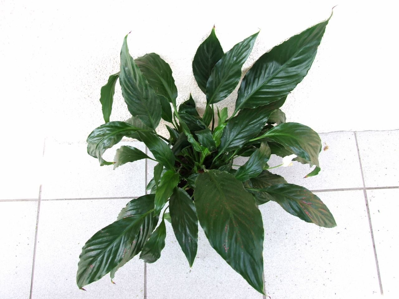 Spathiphyllum wallisii